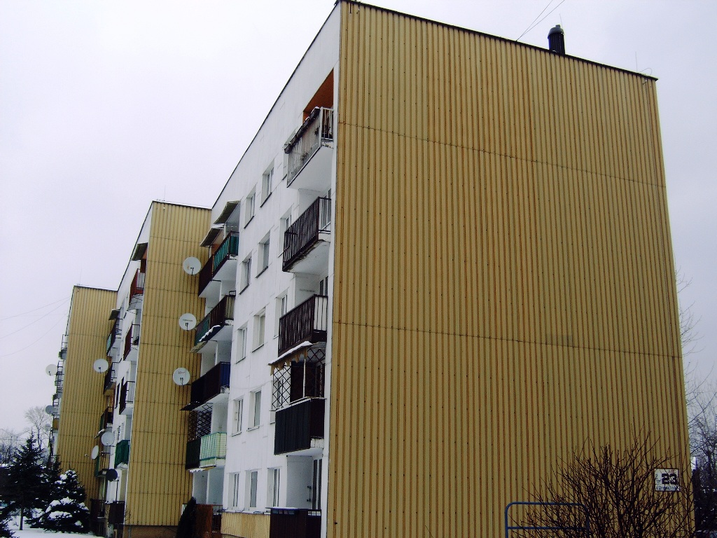 Osiedle Michalskiego in Katowice